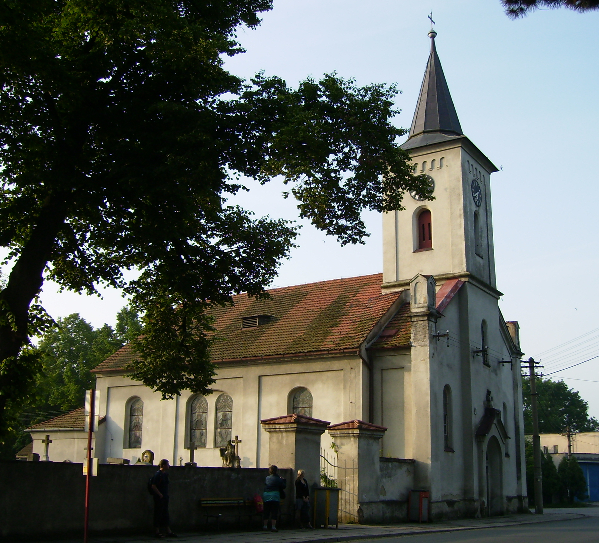 Church of St Adalbert of Prague in Přerov nad Labem, Nymburk District, Czech Republic.